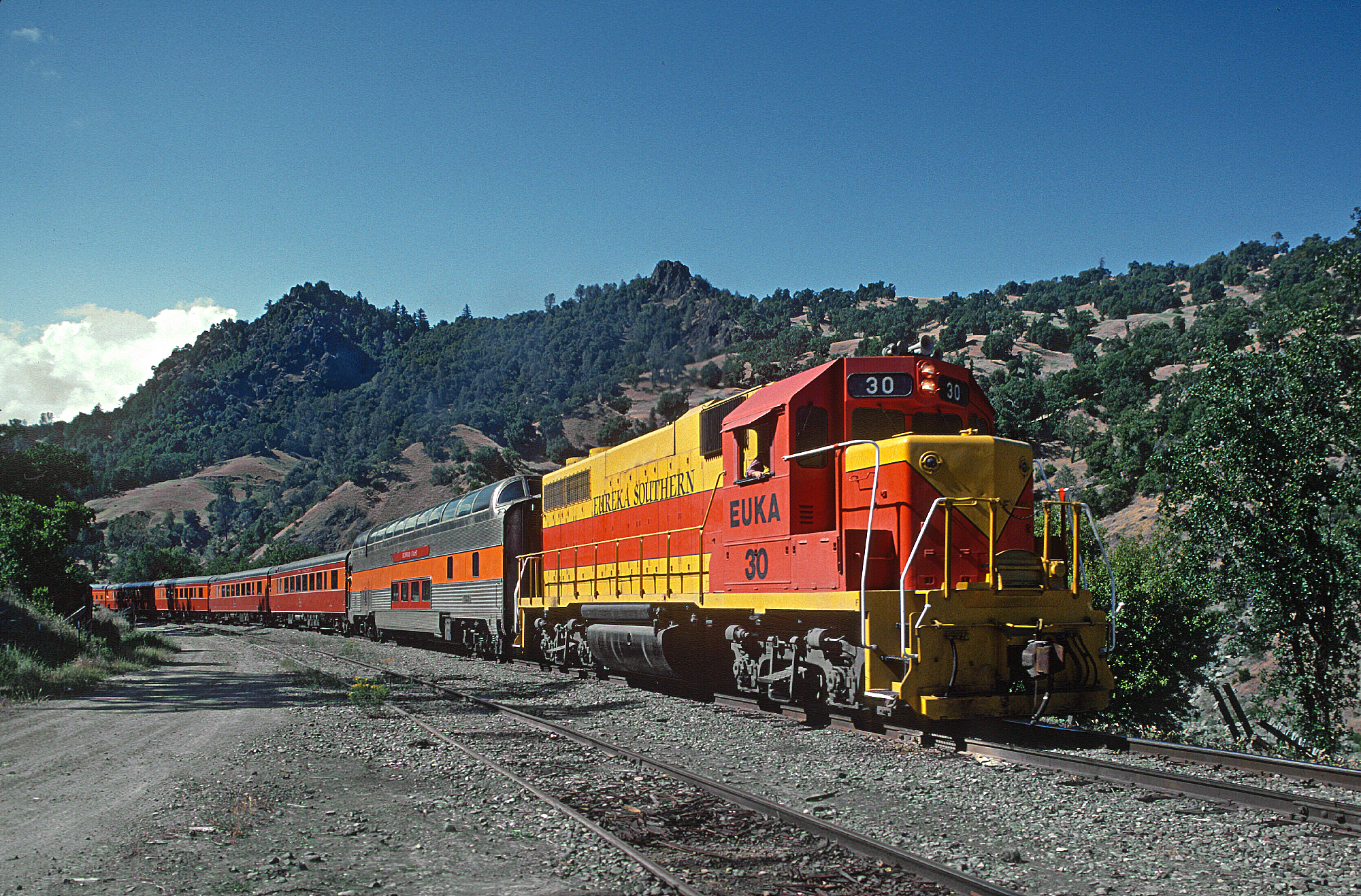 A Roger Puta Photograph